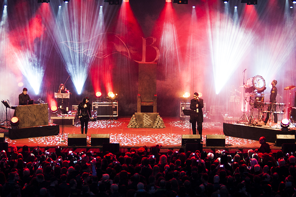 Blutengel, photographed at the Blackfield Festival 2013 in Gelsenkirchen, Germany